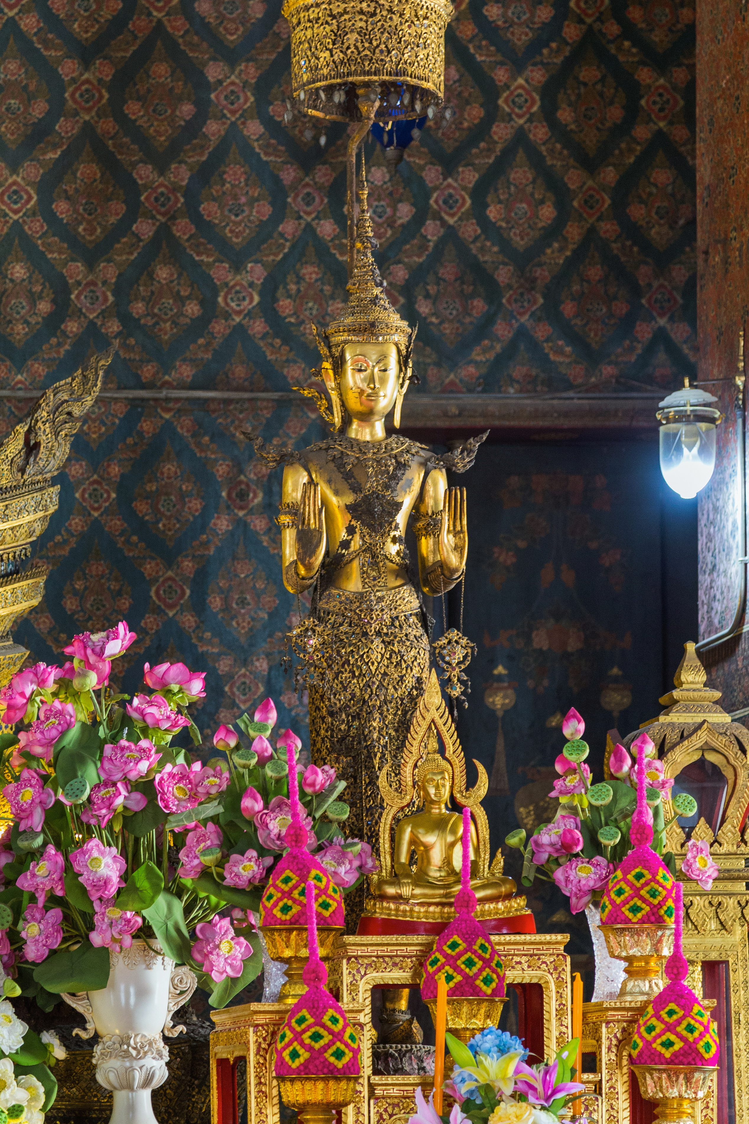 Buddha statue. Wat Thepthidaram. Phra Nakhon District, Bangkok, Thailand.